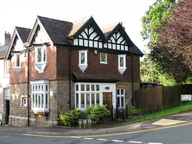 Chepstow - The Lodge on Mount Way